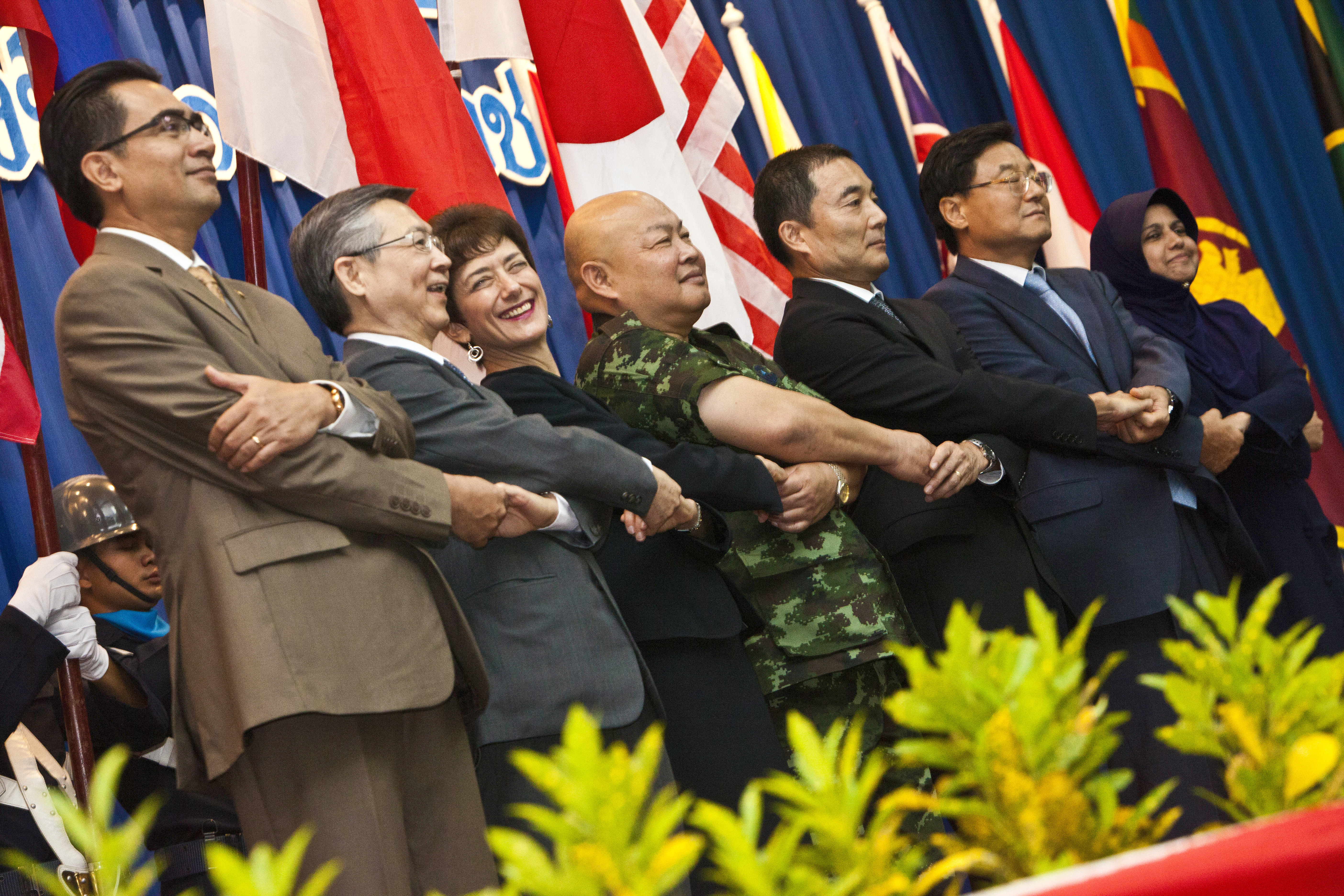 Representatives of the seven participating nations in Exercise Cobra Gold 2012 shake hands during the opening ceremony, Feb. 7. Cobra Gold 2012 improves the capability to plan and conduct combined joint operations, building relationships between partnering nations and improving interoperability across the Asia-Pacific Region.